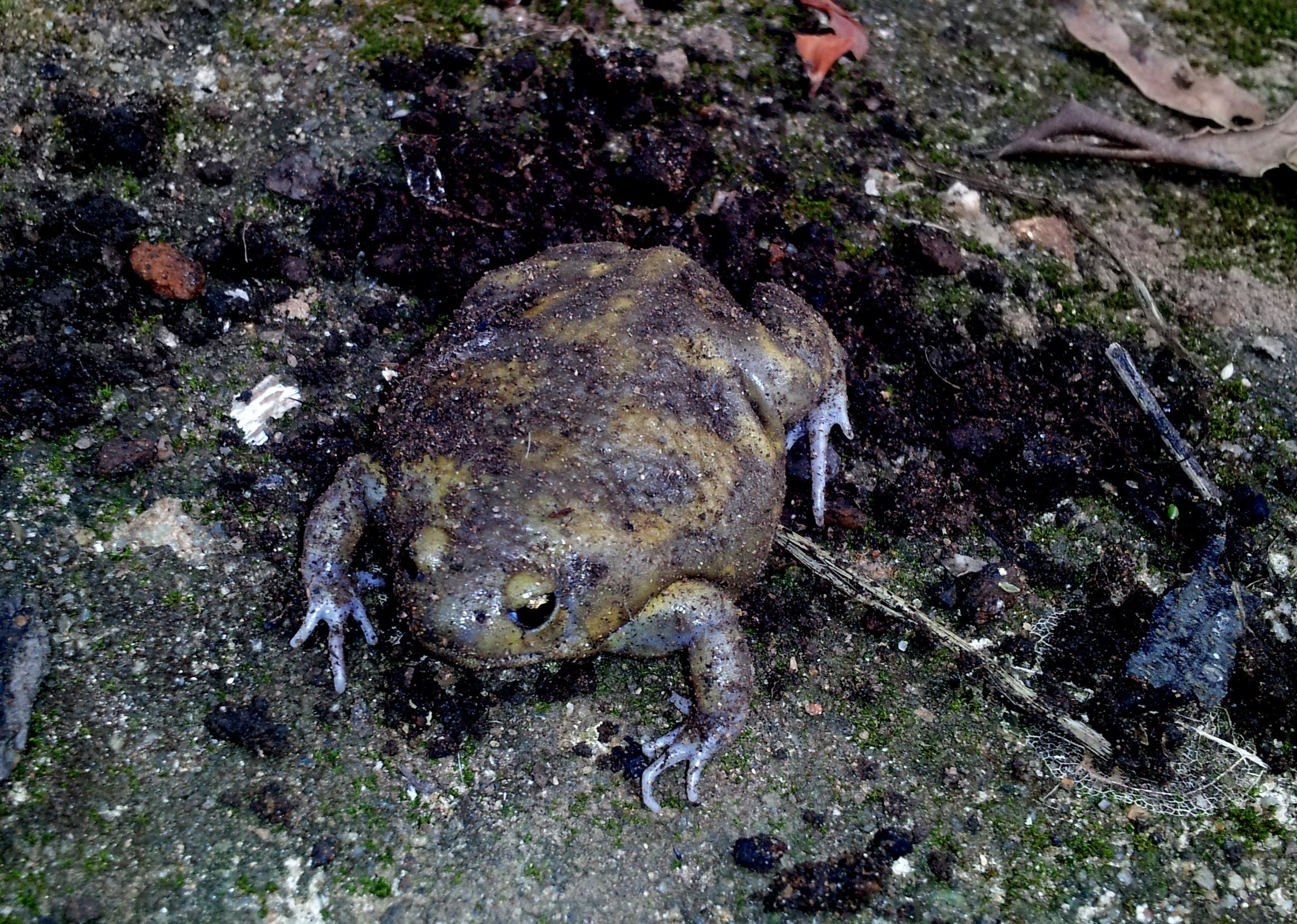 Unearthed Ballon frog in Bakamuna, Sri Lanka